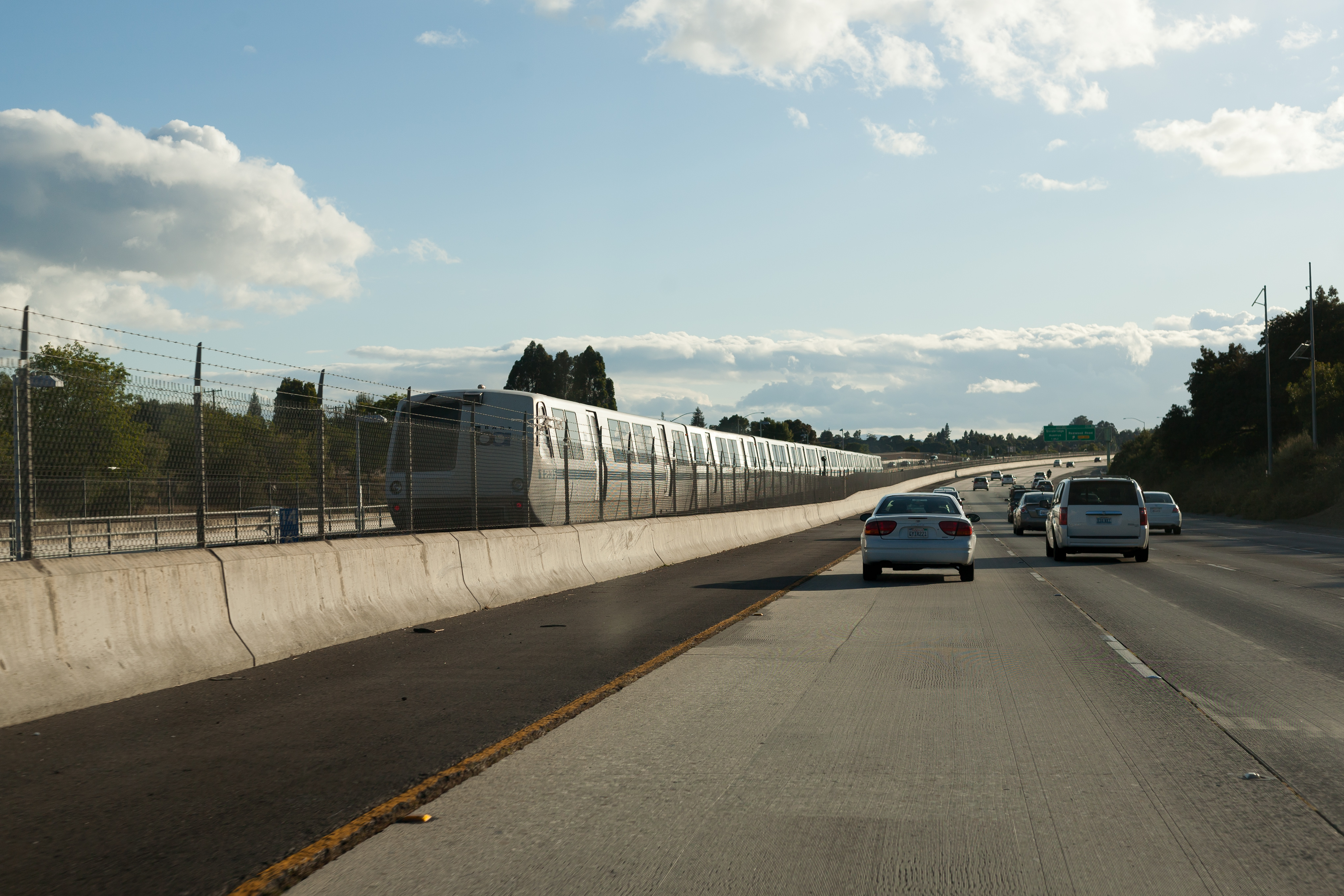 Interstate 580 in Castro Valley, California, with a BART train at the left.